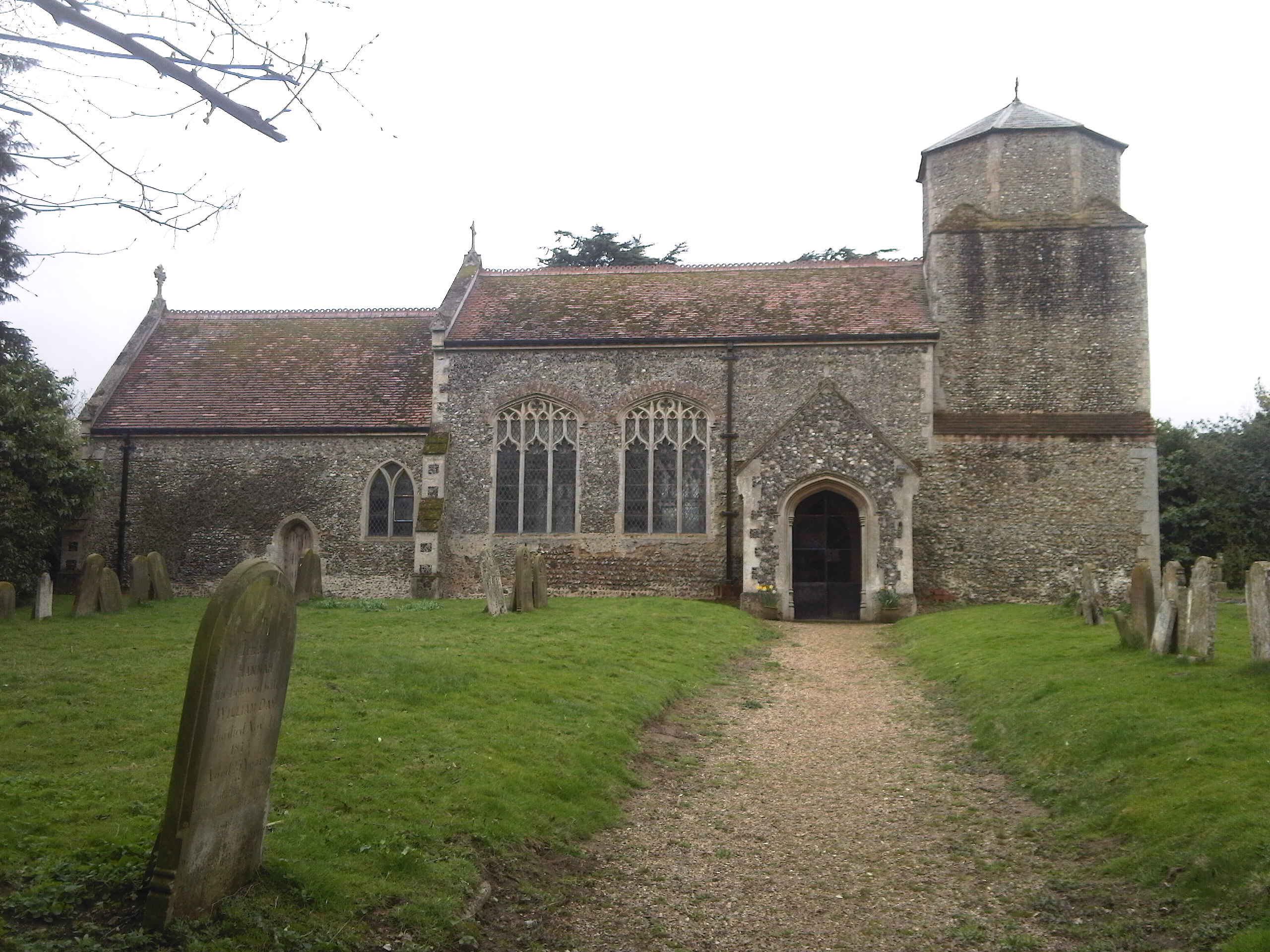 St.Pauls church, Thuxton, April 2009